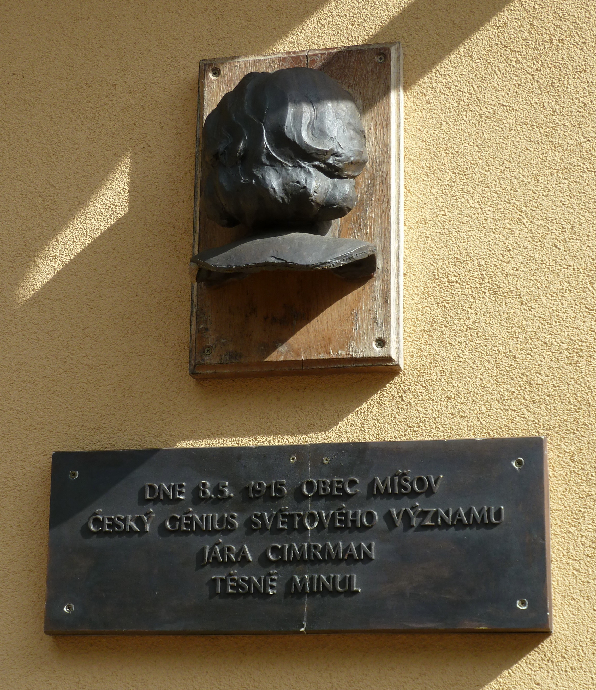 Plaque of Jára Cimrman (fictional Czech inventor and artist) in Míšov, Czech Republic